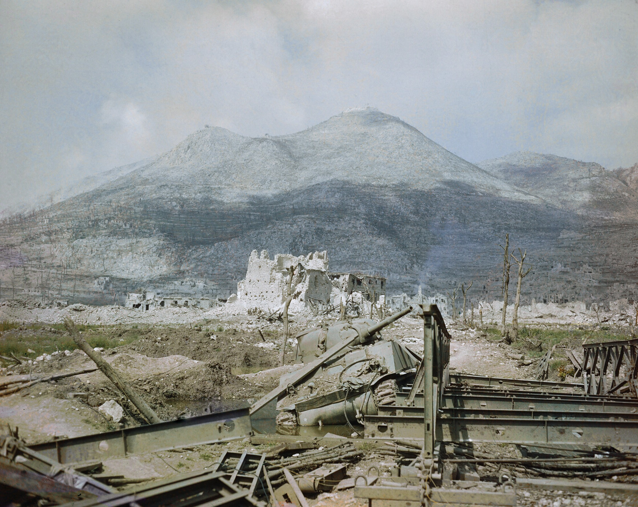 The ruins of Cassino, May 1944: a wrecked Sherman tank and Bailey bridge in the foreground, with Monastery Ridge and Castle Hill in the background. View of Cassino after heavy bombardment showing a knocked out Sherman tank by a Bailey bridge in the foreground with Monastery Ridge and Castle Hill in the background.